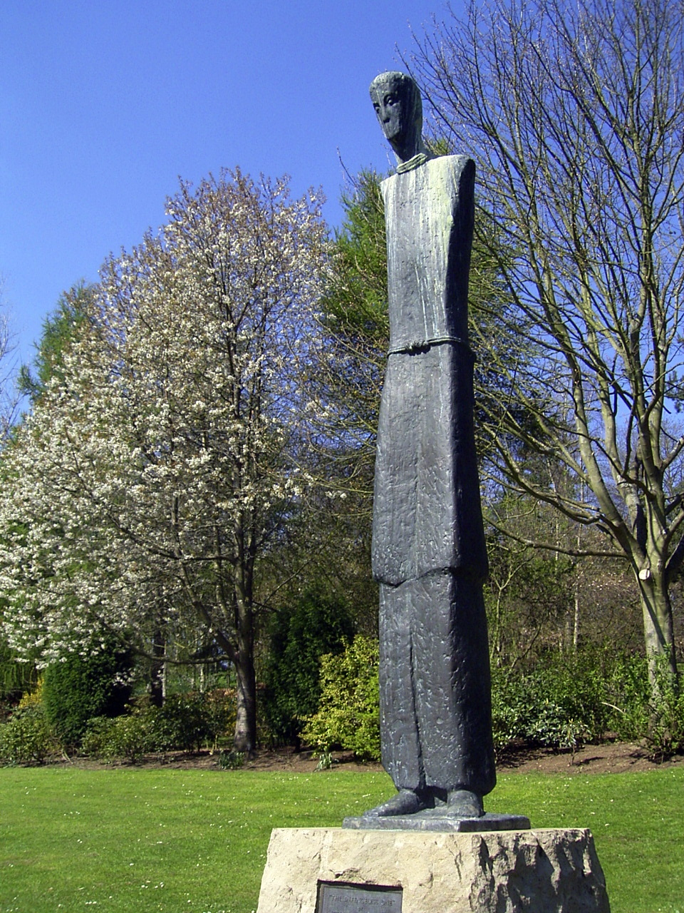 "The Defenceless One" by Rudolf Christian Baisch. Presented by the town of Boblingen to the people of its twin town Glenrothes in Scotland, June 1991.